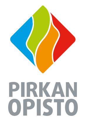 the official logo of Pirkan opisto